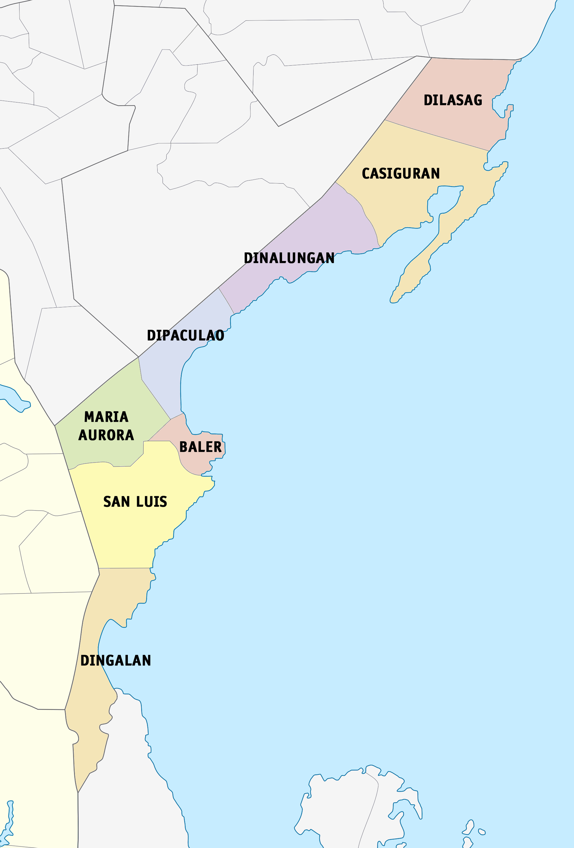 Political map of Aurora, Philippines